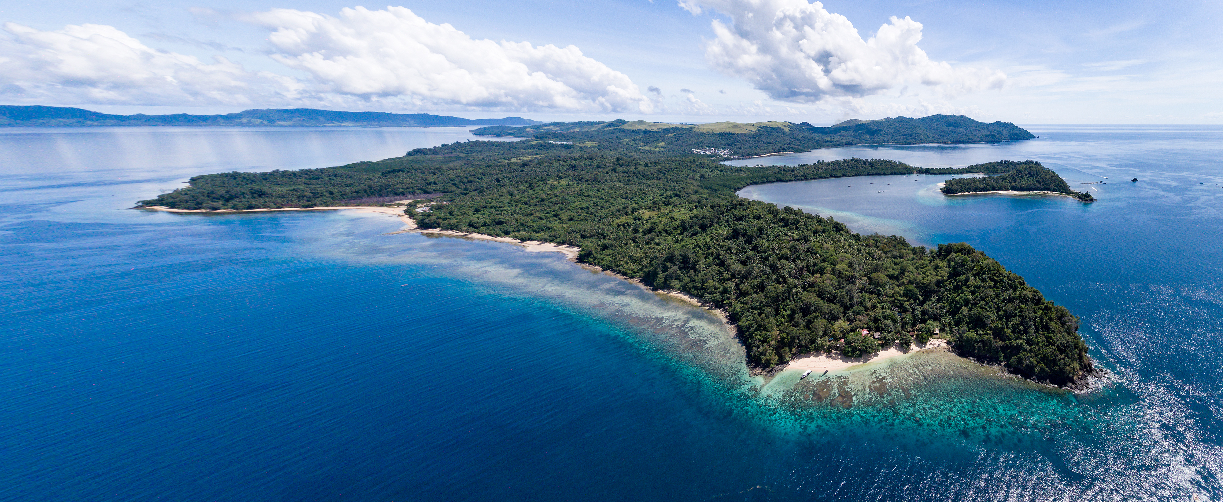 Aerial Panorama of Pulau Bangka in North Sulawesi Indonesia, North Sulawesi, Nord Sulawesi, Celebes Sea, Murex Manado